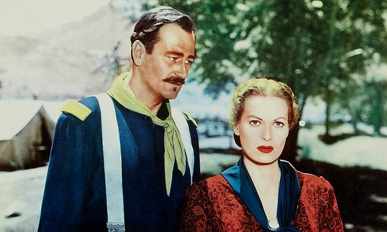 Photo from the film ‘’Rio Grande’’ with John Wayne and Maureen O’Hara.